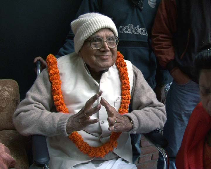 Nepali congress leader